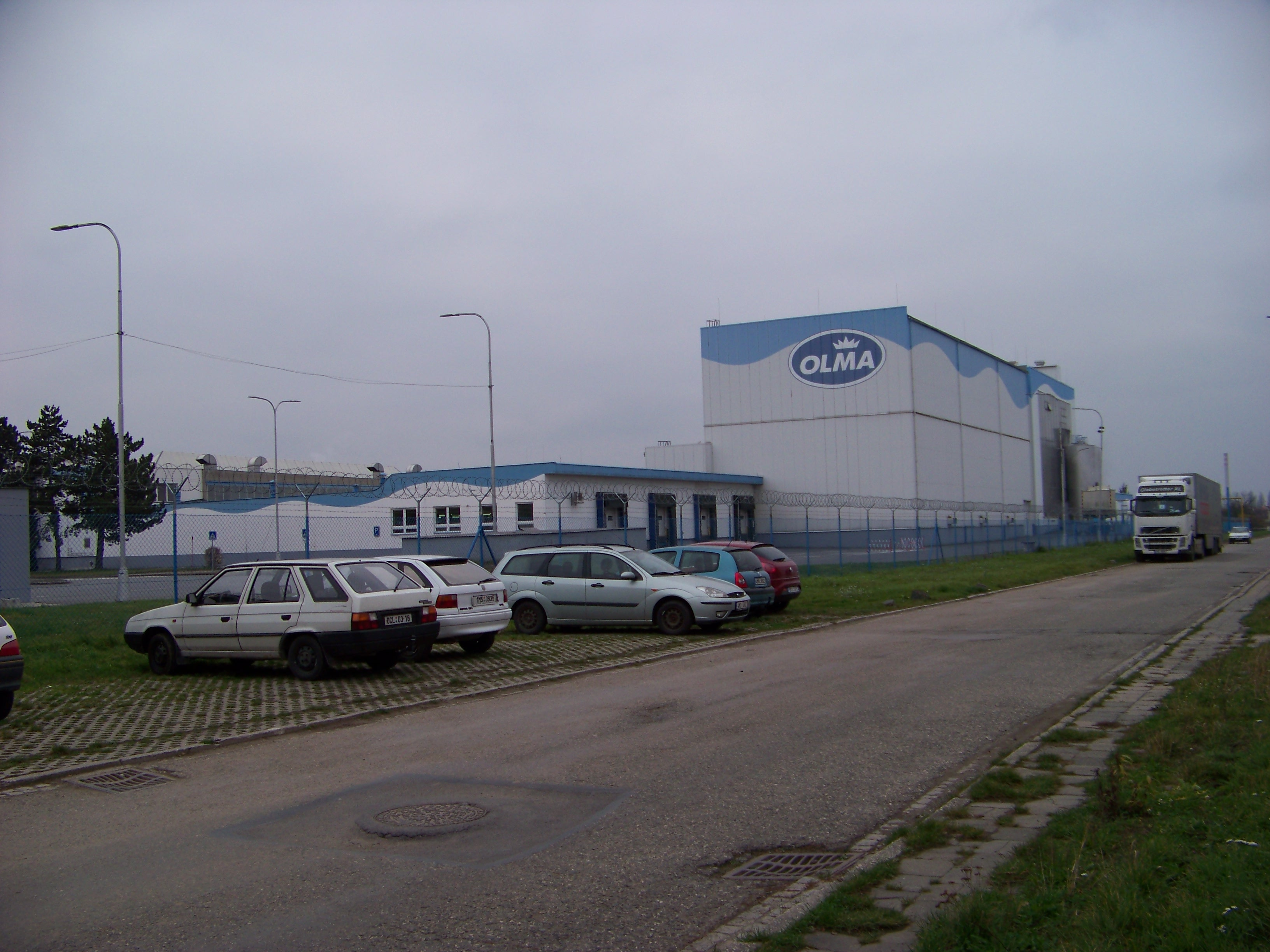 Olomouc-Holice, Olomouc District, Olomouc Region, Czech Republic. Pavelkova 597/18, OLMA dairy.